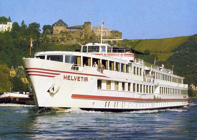 River cruise ship Helvetia